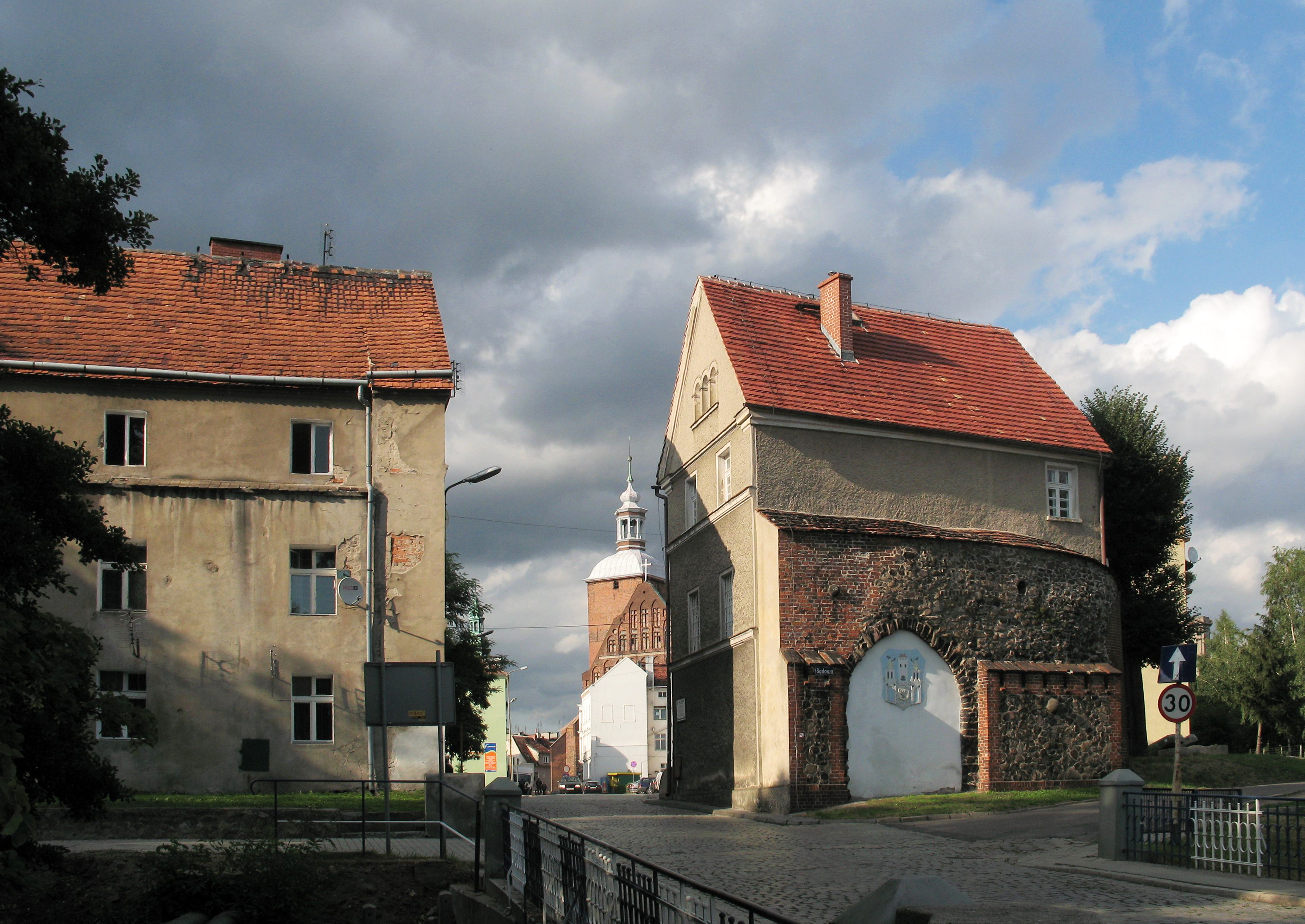 the museum in Szprotawa